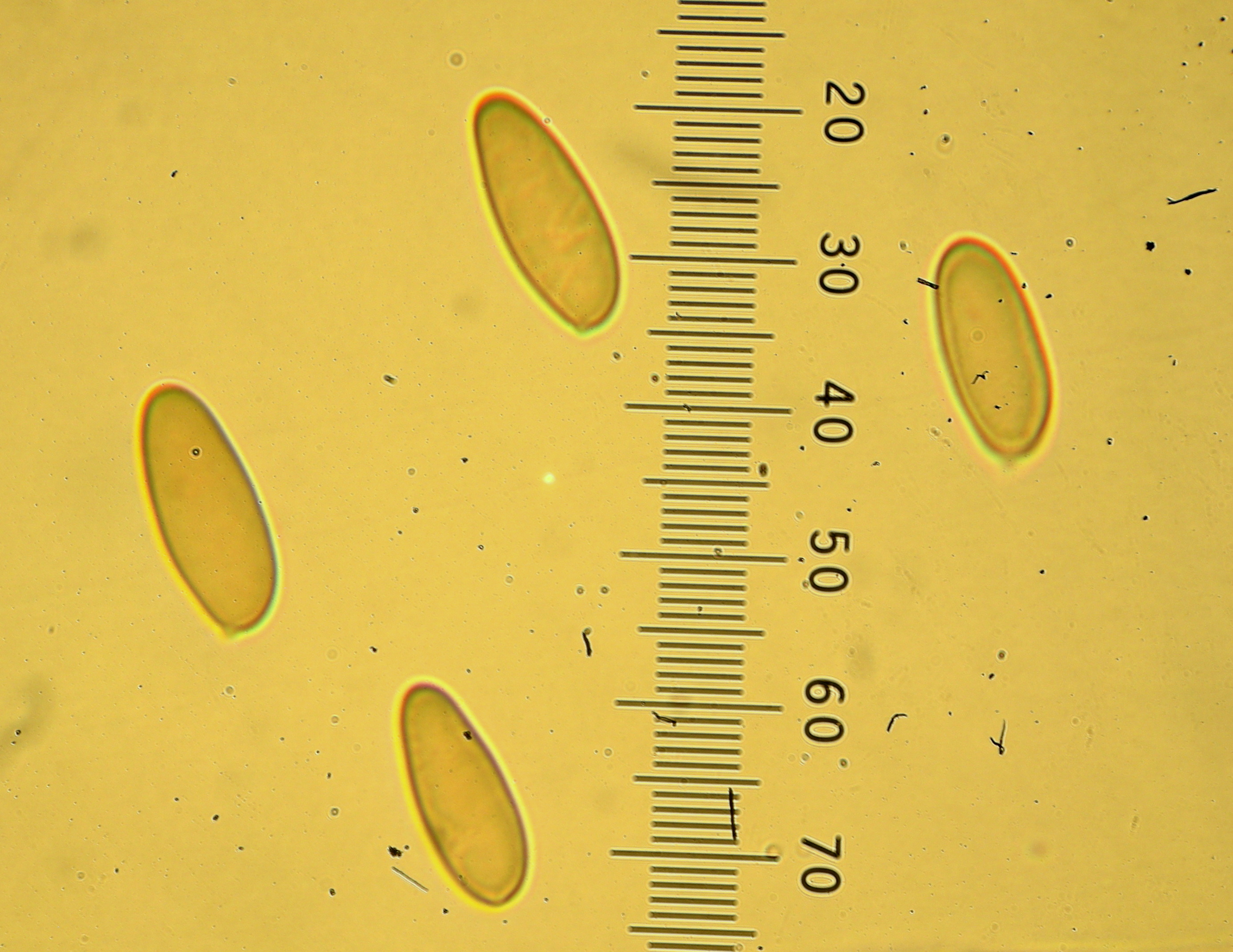 Spores of Gomphidius glutinosus